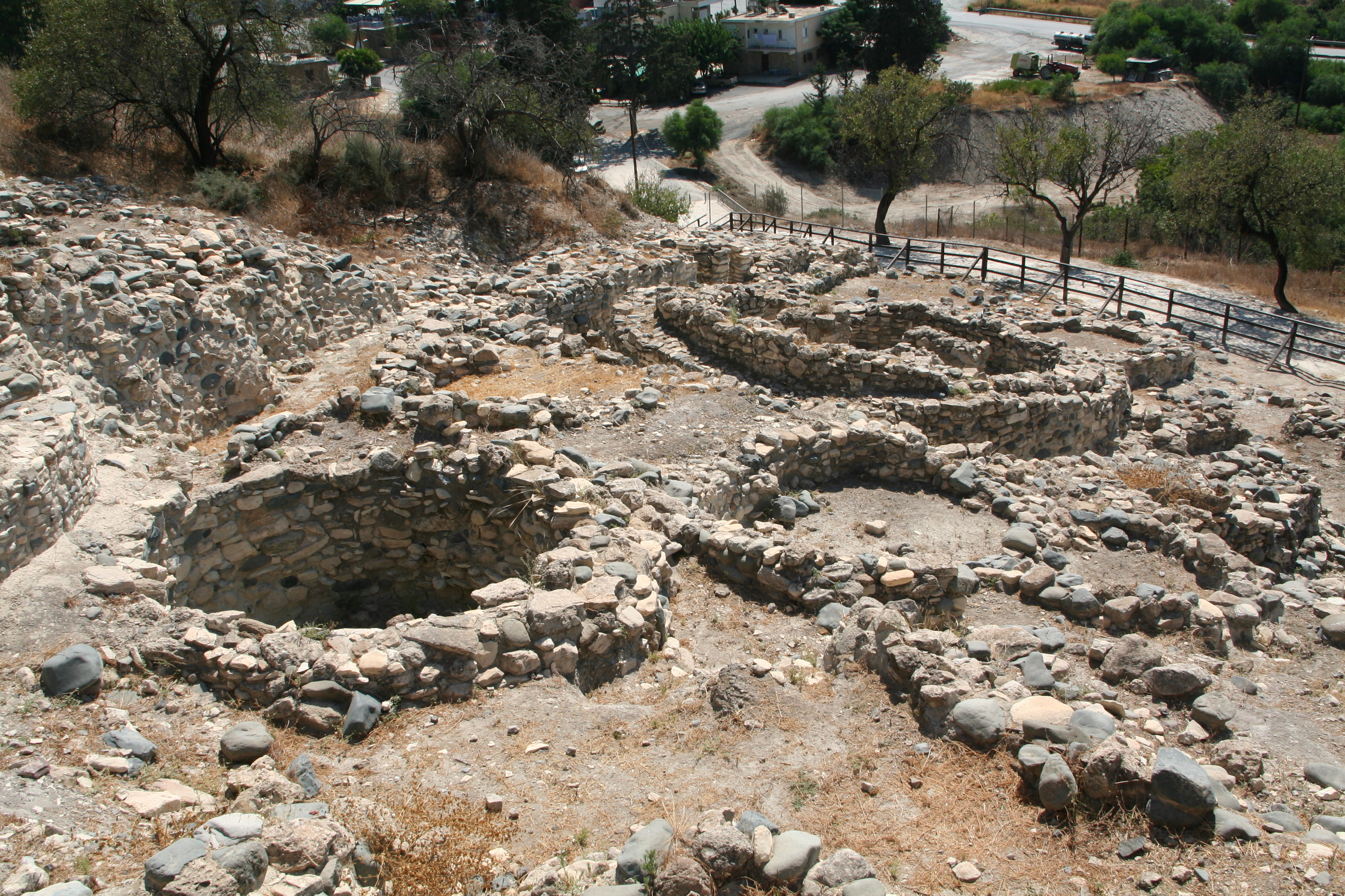 General Overview with Unit IA and XIIA Khirokitia, between 7000 and 5800 BC